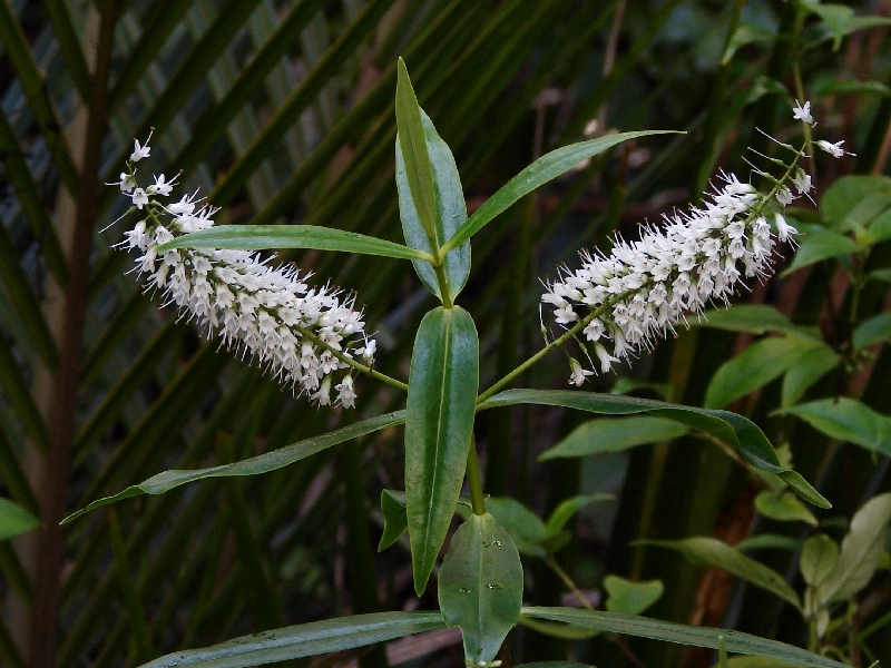 Willow-Leafed Hebe, or Koromiko (Maori name) is New Zealand native Hebe. Location: rainforest of Waitakere Ranges Regional Park, west Auckland, New Zealand